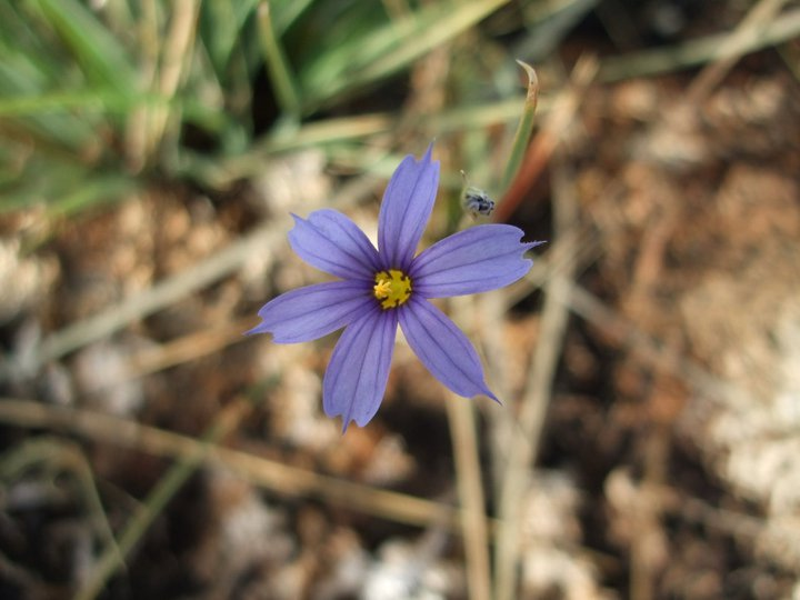 Sisyrinchium funereum. "This photo is in the public domain and may be freely used for any purpose."